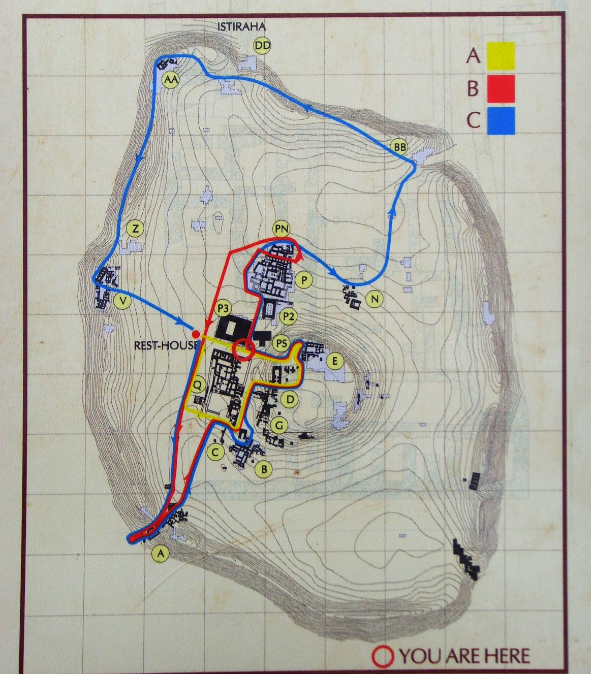 Ebla